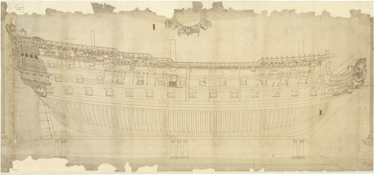 Starboard profile, decoration detail, and figurehead for the Royal William (1719), a 100-gun First Rate, three-decker. Representation of an Admiralty Model of the Royal William, with the underwater area left unplanked to illustrate the frames.